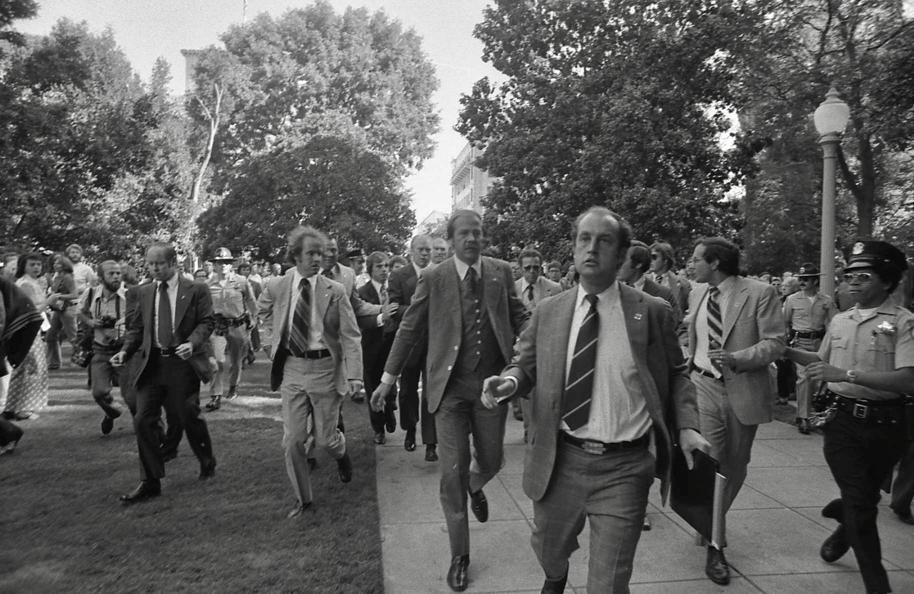 Following the September 5, 1975 10:04 am[1] attempt on U.S. President Gerald Ford's life by cultist Charles Manson Family member Lynette "Squeaky" Fromme, Secret Service agents rush President Ford towards the California State Capitol in Sacramento.